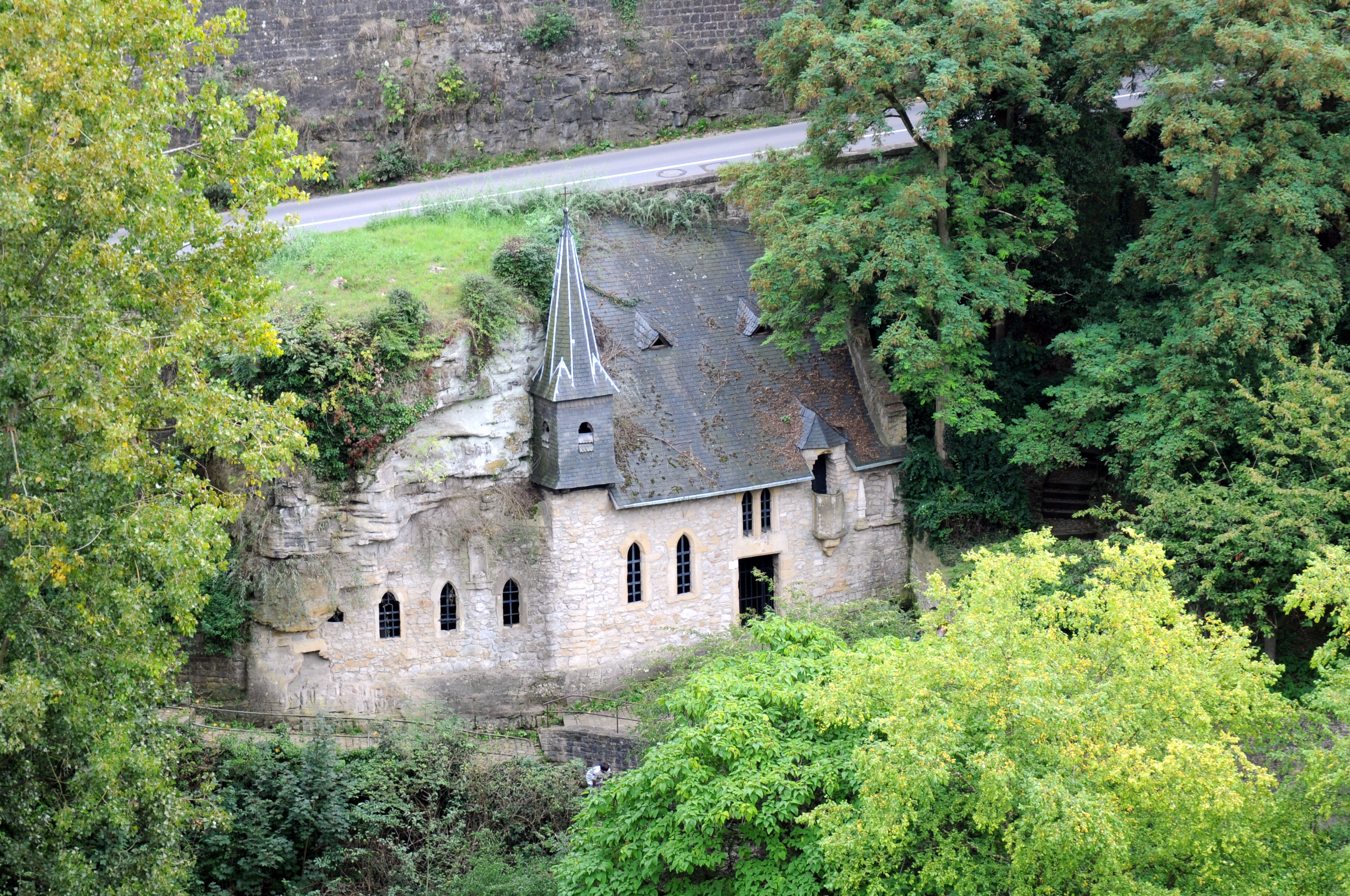 Quirinus-Chapel in Luxembourg-City.